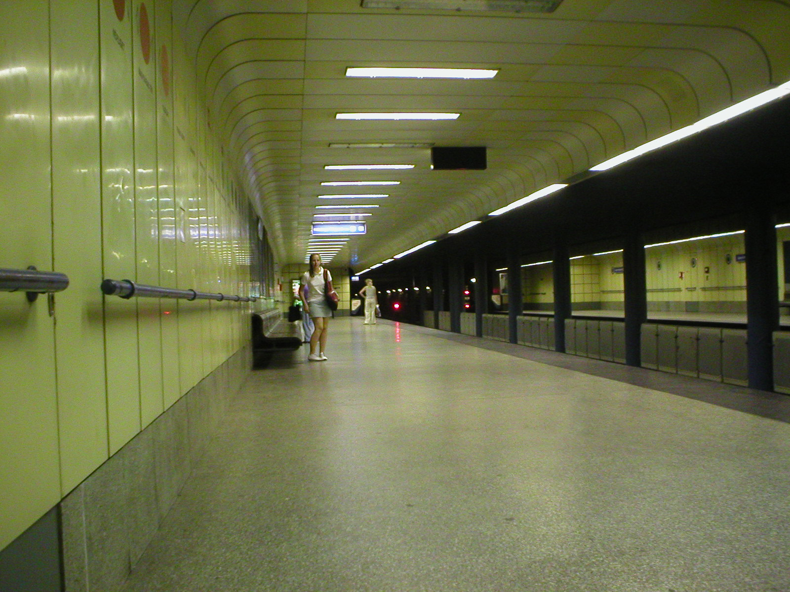 The Budapest Metro station "Újpest-Központ" (Line M3)